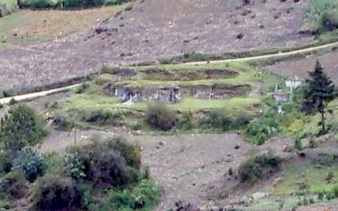 The small Maya ruin of K'atepan, near San Mateo Ixtatán, in Huehuetenango department, Guatemala.